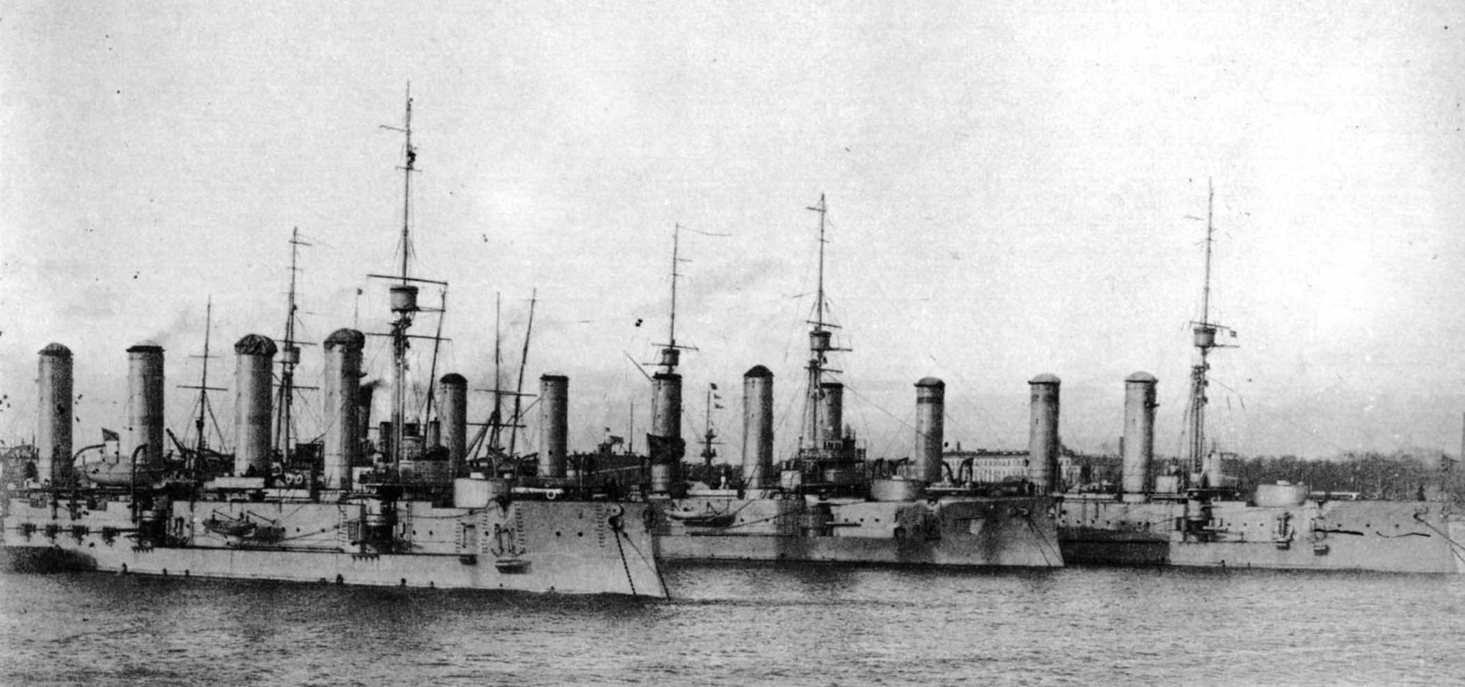 Imperial Russian armoured cruisers Bayan (II), Admiral Makarov and Pallada, 1912-1914.